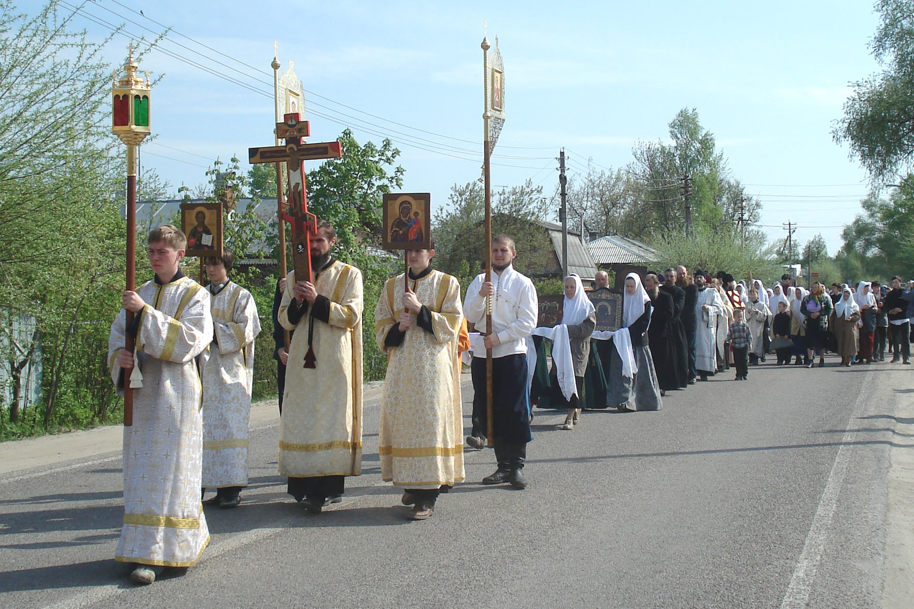 Crucession. Russian Orthodox Old-Rite Church. Davidovo (Guslitci) Orehovo-Zuevo district Moscow reg.